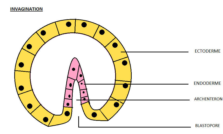 Shown above is the mechanism of invagination